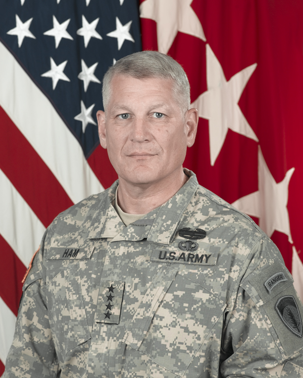 General Carter F. Ham, USA, commanding general, 7th United States Army